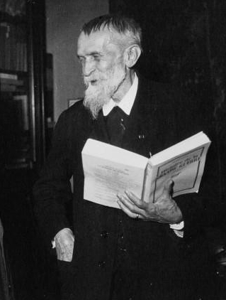 French writer and literary critic René Doumic (1860-1937).